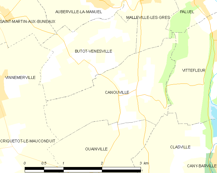 Map of French municipality Canouville